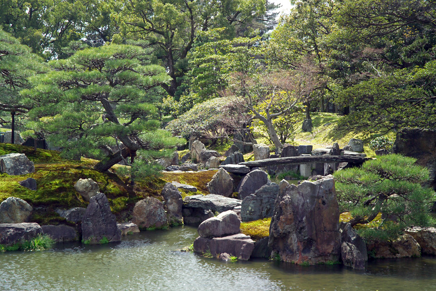 This photograph shows the garden at Nijo Castle in Kyoto, Japan. I took the photo. Picture of the Day for May 1, 2005